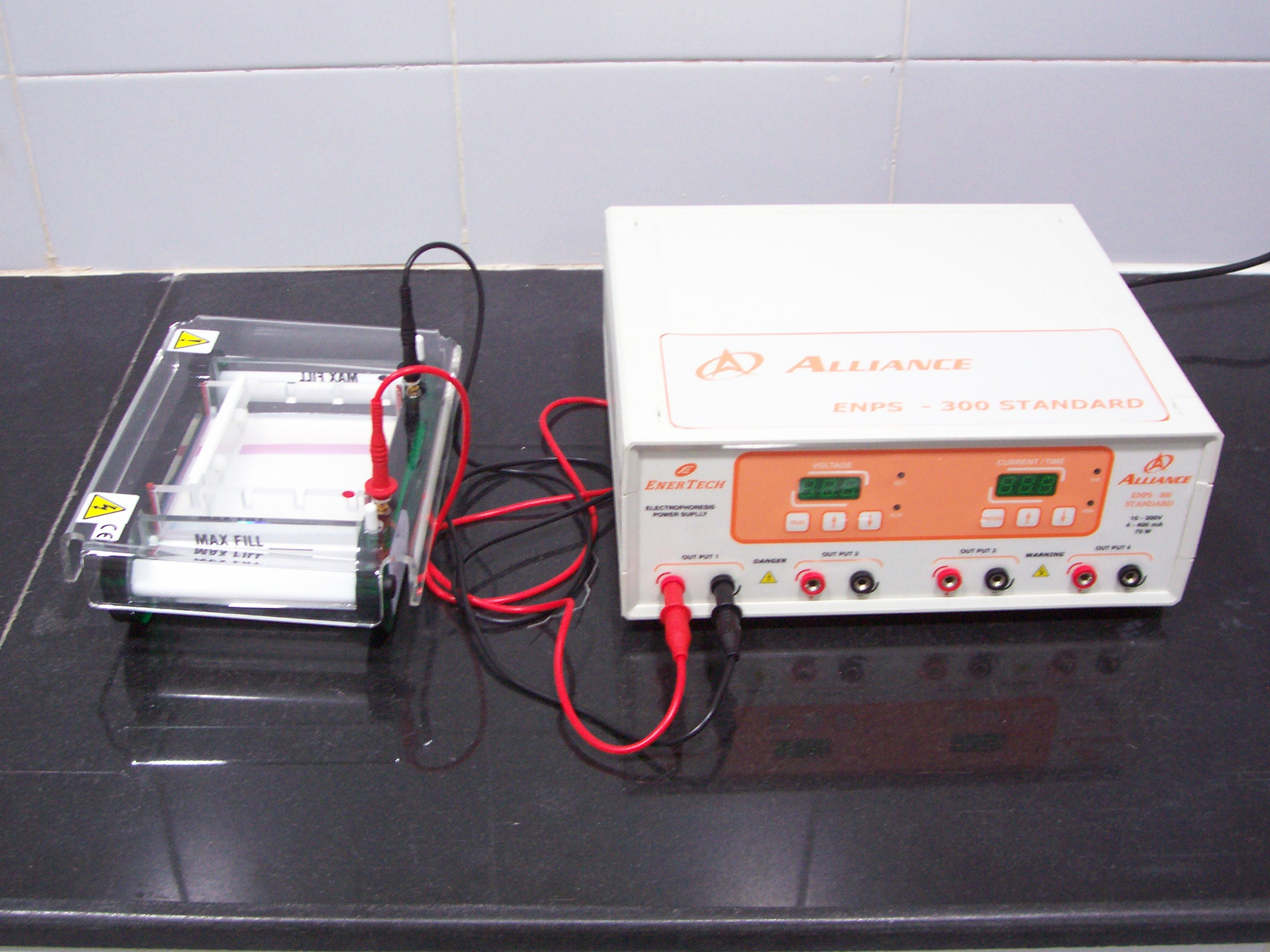 Electrophoresis unit for conducting DNA gel electrophoresis